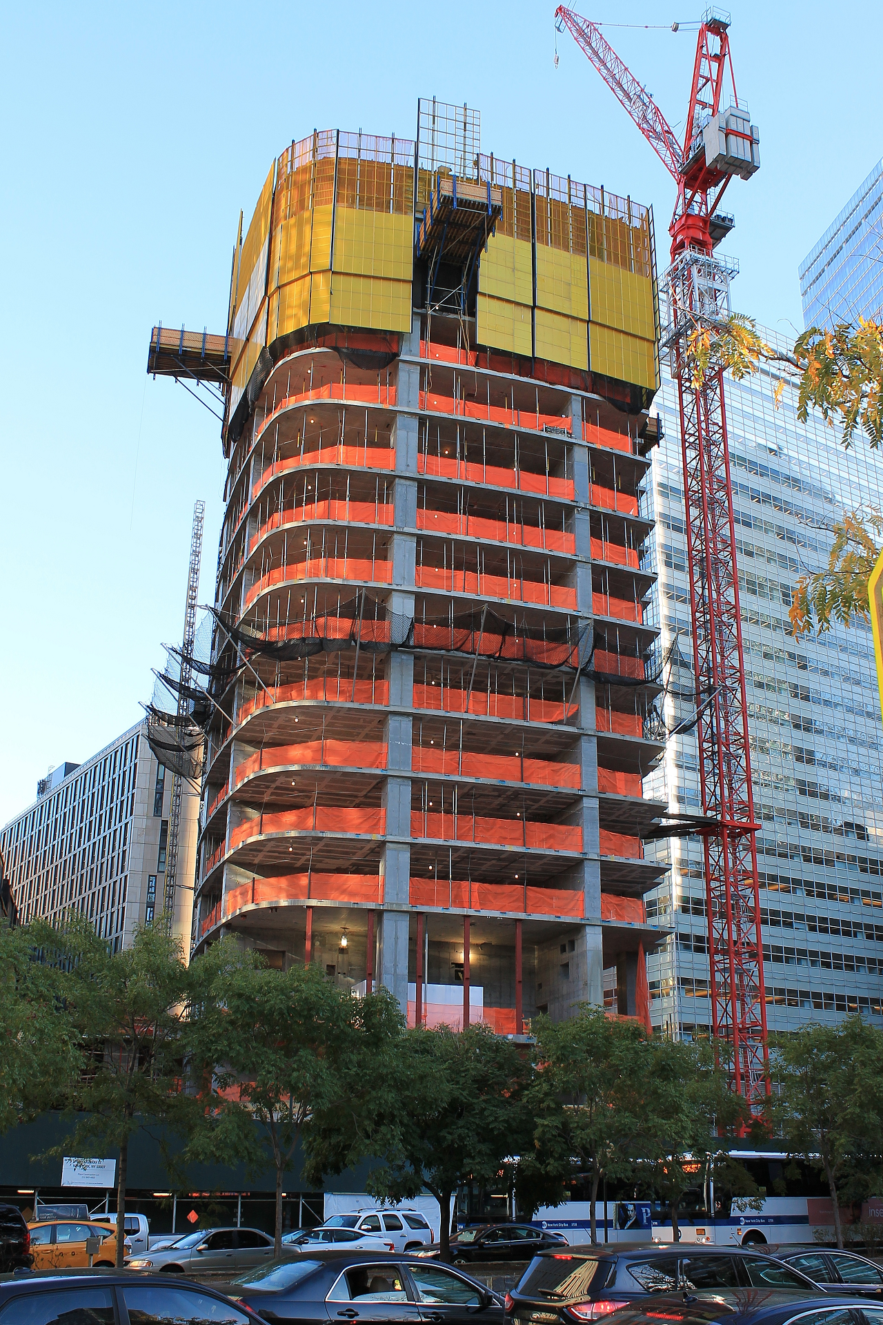 111 Murray Street under construction, October 2016.